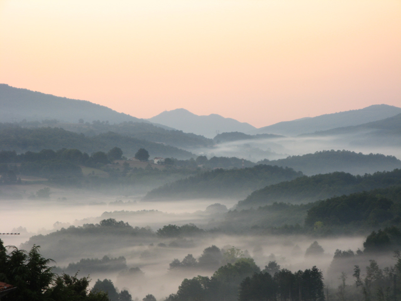 Valley of the Amato (or Lamato) river, Calabria, Italy